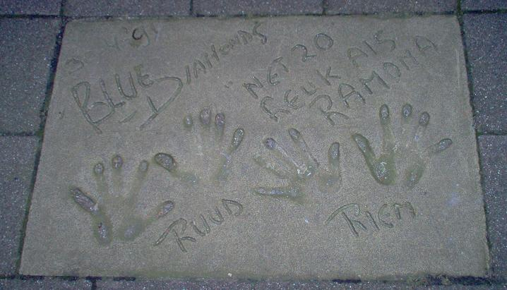 Hand prints of The Blue Diamonds in the Walk of Fame in Rotterdam.